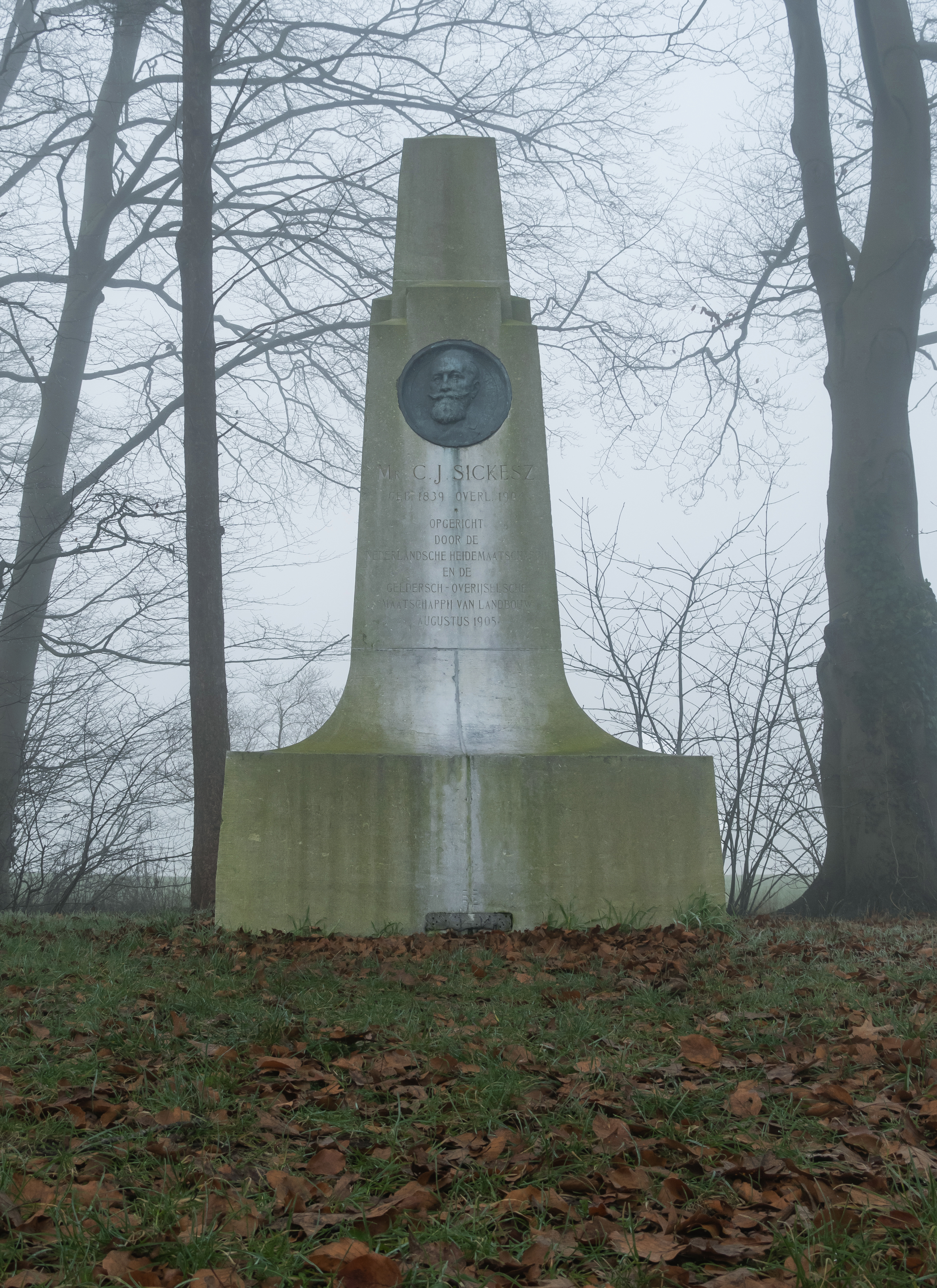 Lochemse Berg, memorial for Cornelis Jacob Sickesz (former major of Laren-Gld)